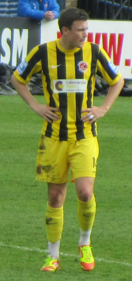 Andrew Mangan